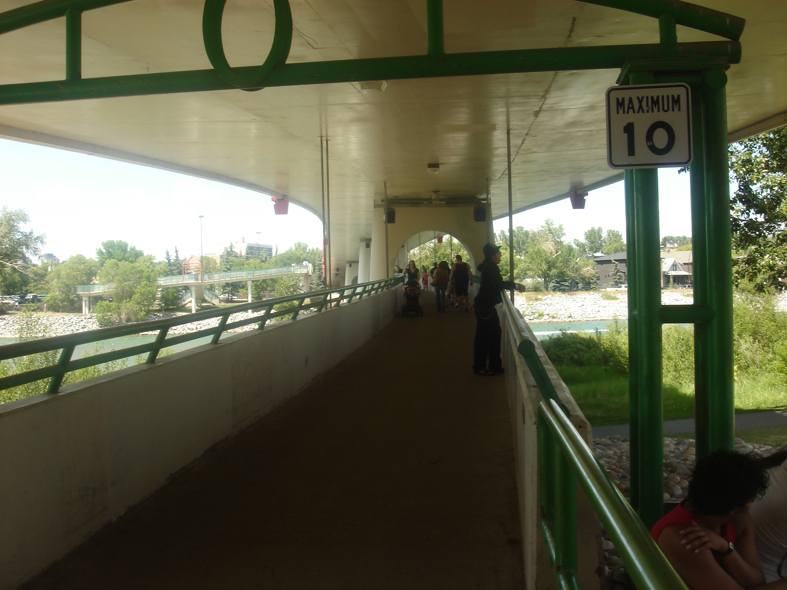 Lower deck of C-Train Bridge, Calgary, Alberta, Canada